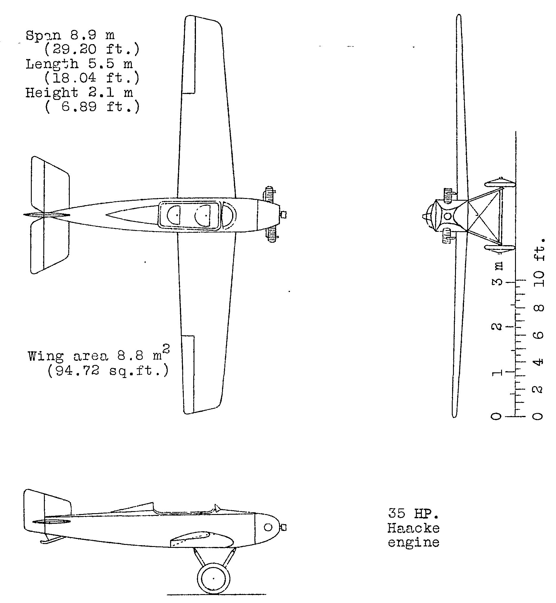 Udet U 2 3-view drawing from NACA-TM-301